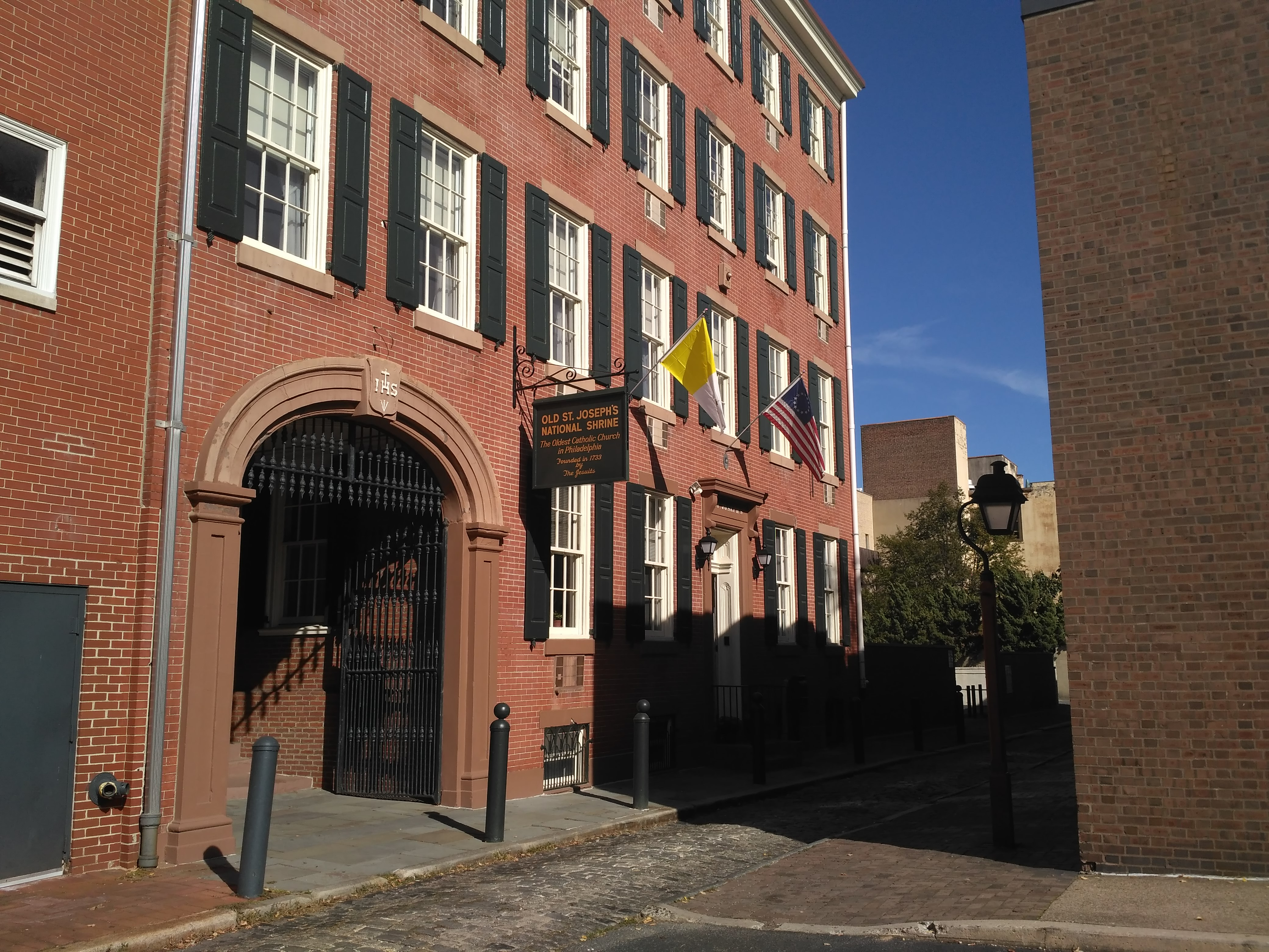 Entrance of the Old St. Joseph's Church, Philadelphia